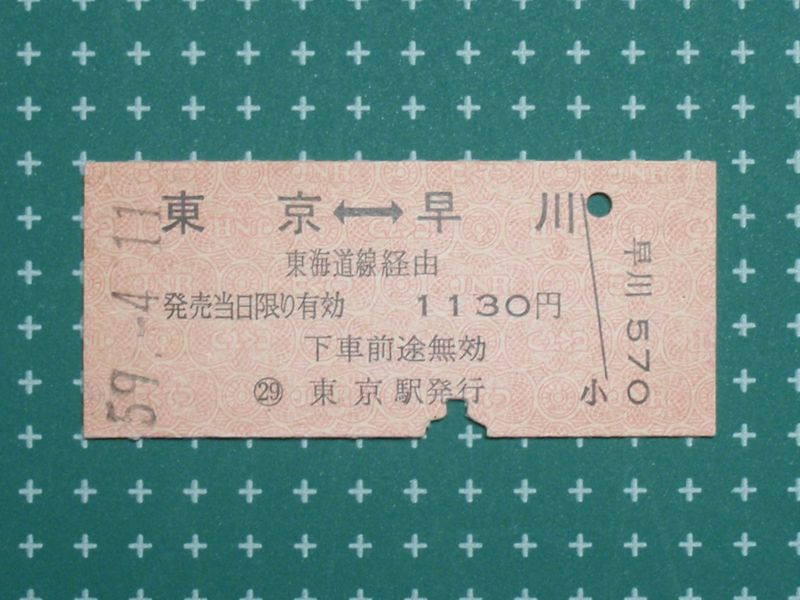 Japanese National Railways ticket between Tokyo and Hayakawa